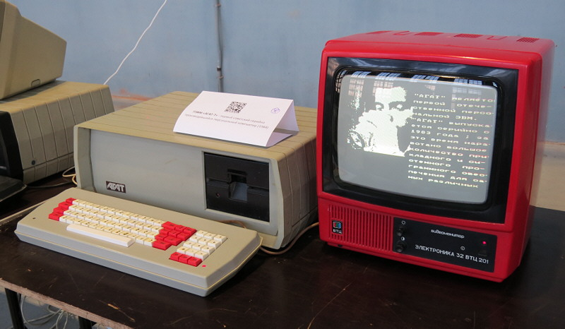 Soviet microcomputer AGAT-7